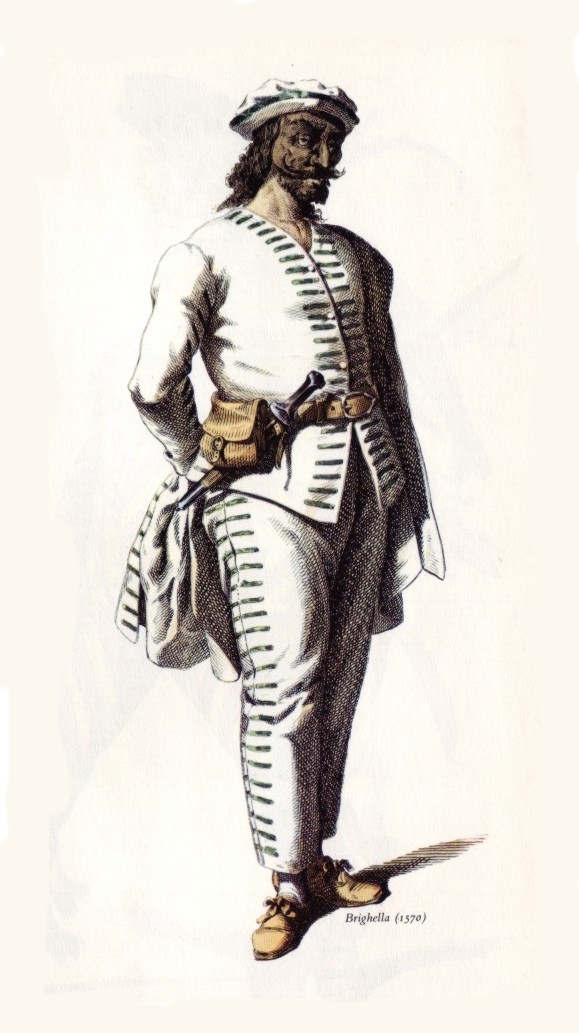 Brighella year 1570